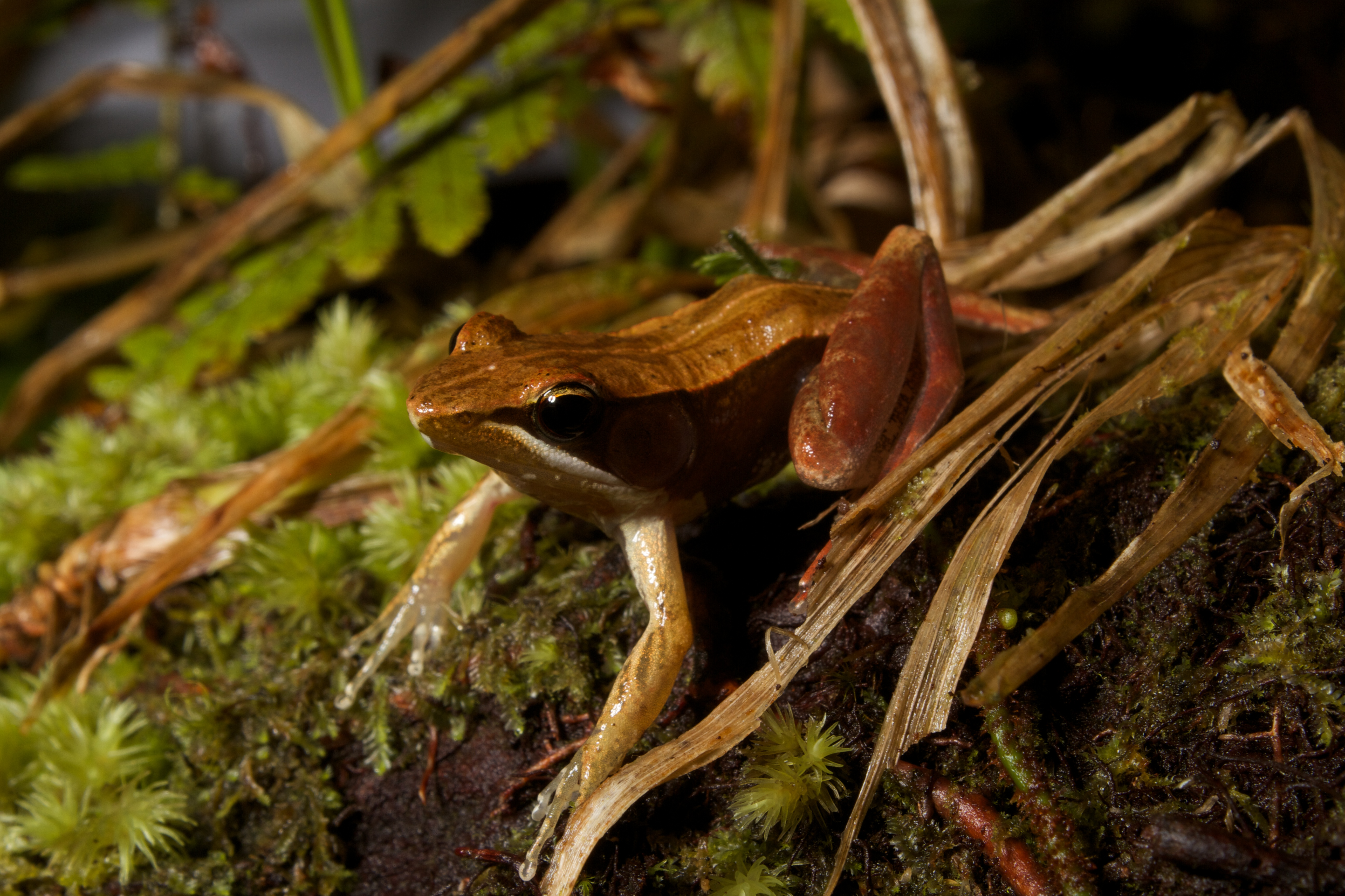 Mantidactylus opiparis